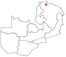 Map: Gwembe, town and district in the southern province of Zambia